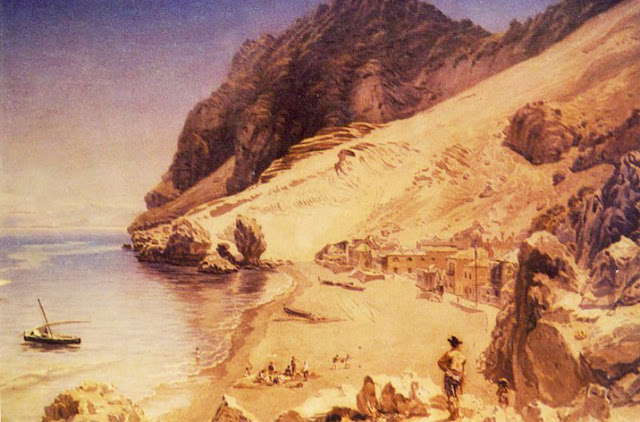 Catalan Bay Gibraltar - painted before 1893 by TC Dibdin